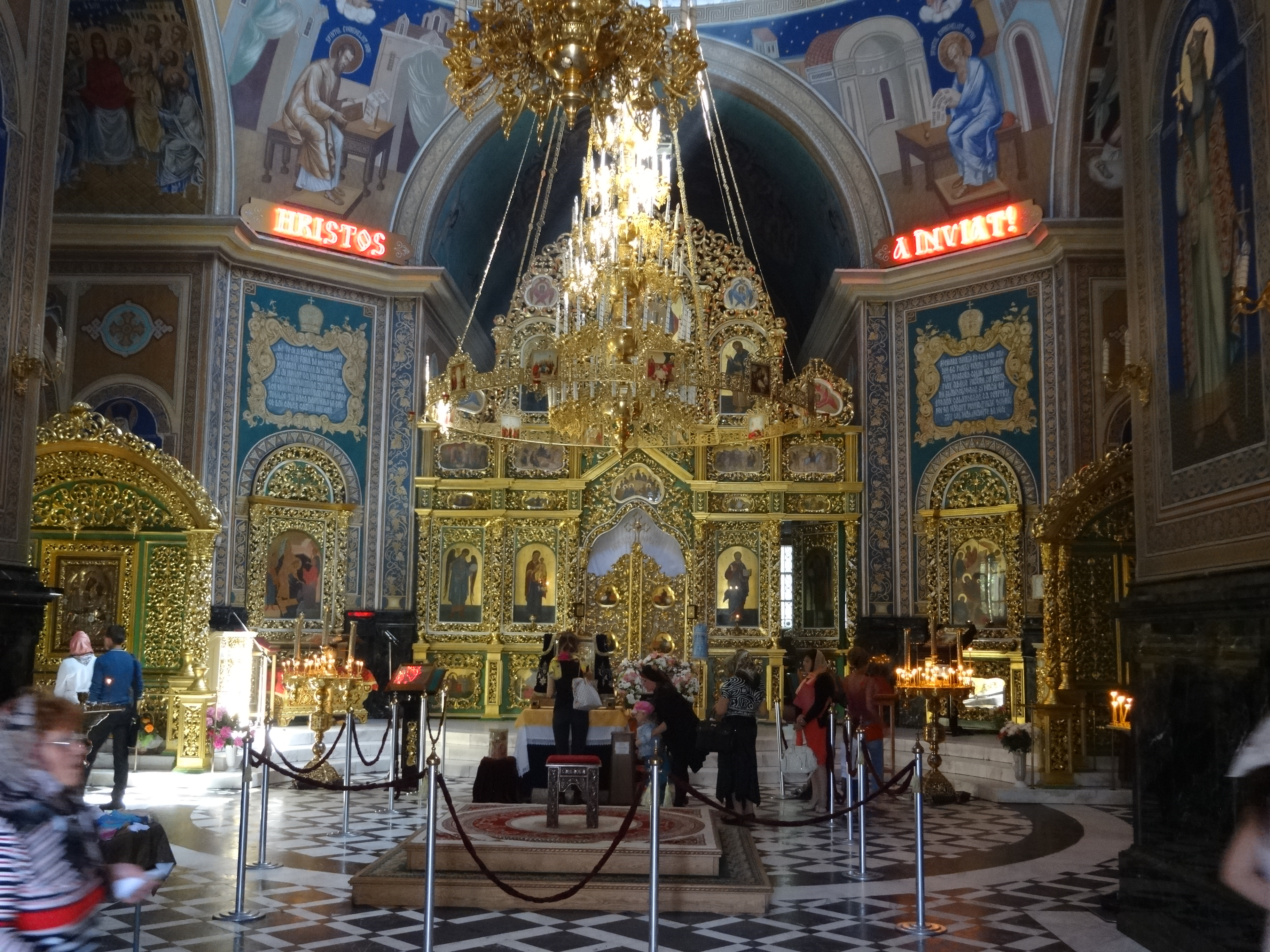 Chișinău cathedral (inner view)